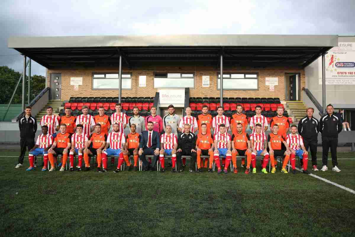 Stockport Town F.C. team photo for the 2015–16 season.